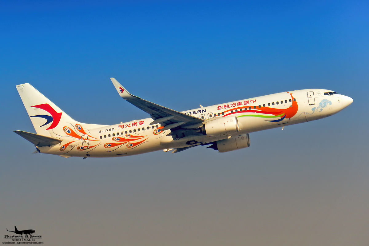 VGHS 2017:Shot earlier today, while spotting cars. Hence the funny quality